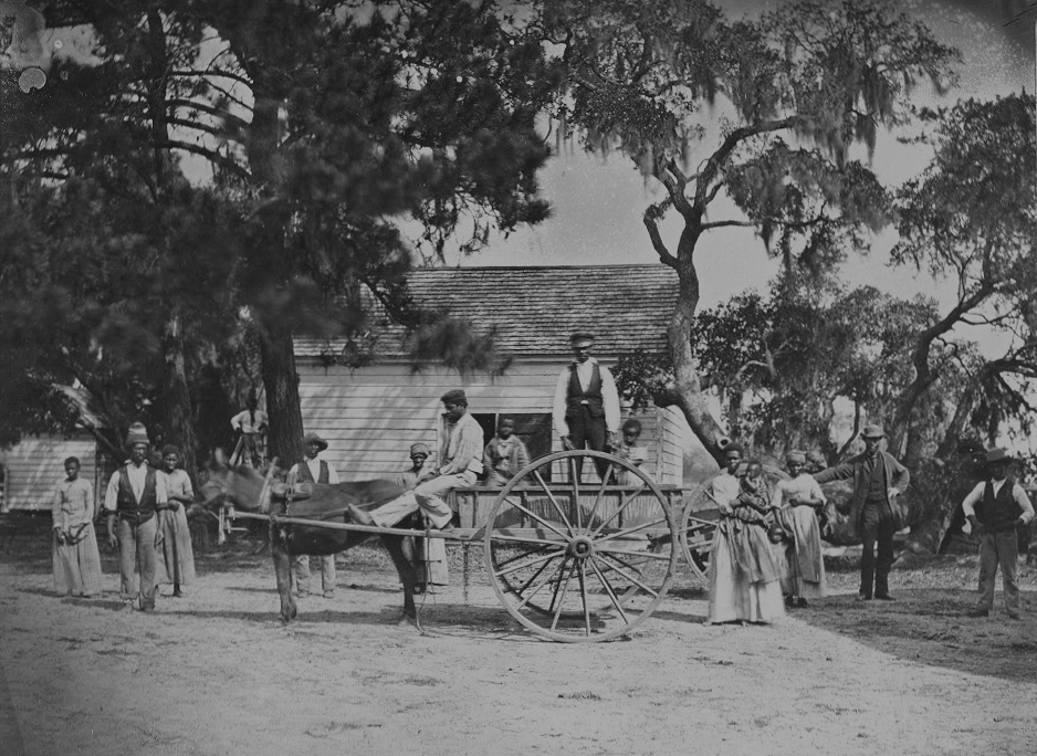 James Hopkinson's Plantation. Group going to field. African American men, women and children stand around and in a horse-drawn cart. A white man who could be James Hopkinson stands next to them. Edisto Island, South Carolina.